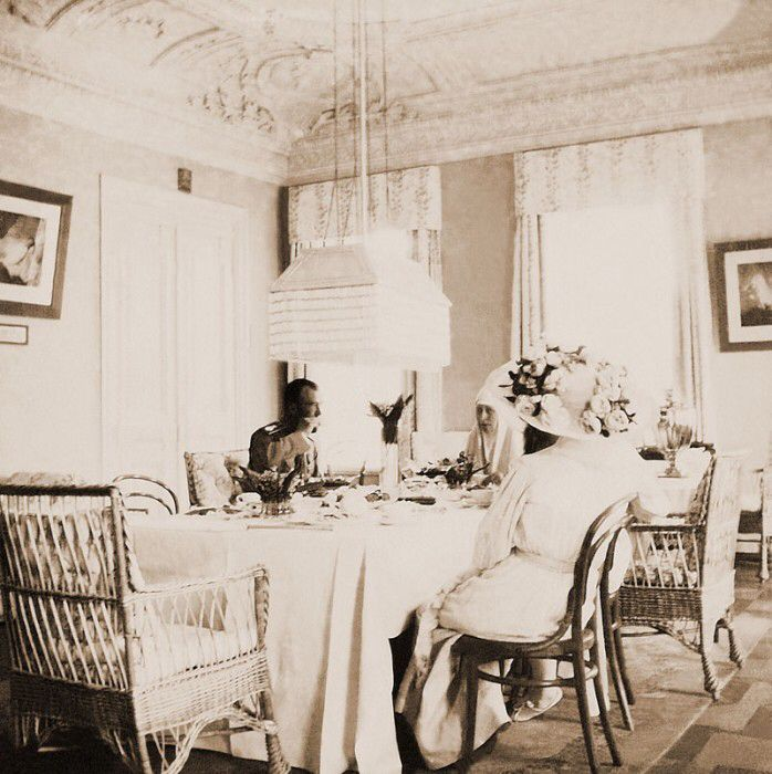 Nicholas II and empress Alexandra Feodorovna (Alice of Hesse-Darmstadt) visiting grand duchess Elizaveta Fedorovna (Elisabeth of Hesse-Darmstadt) at the Marfo-Mariinsky Convent of Moscow.